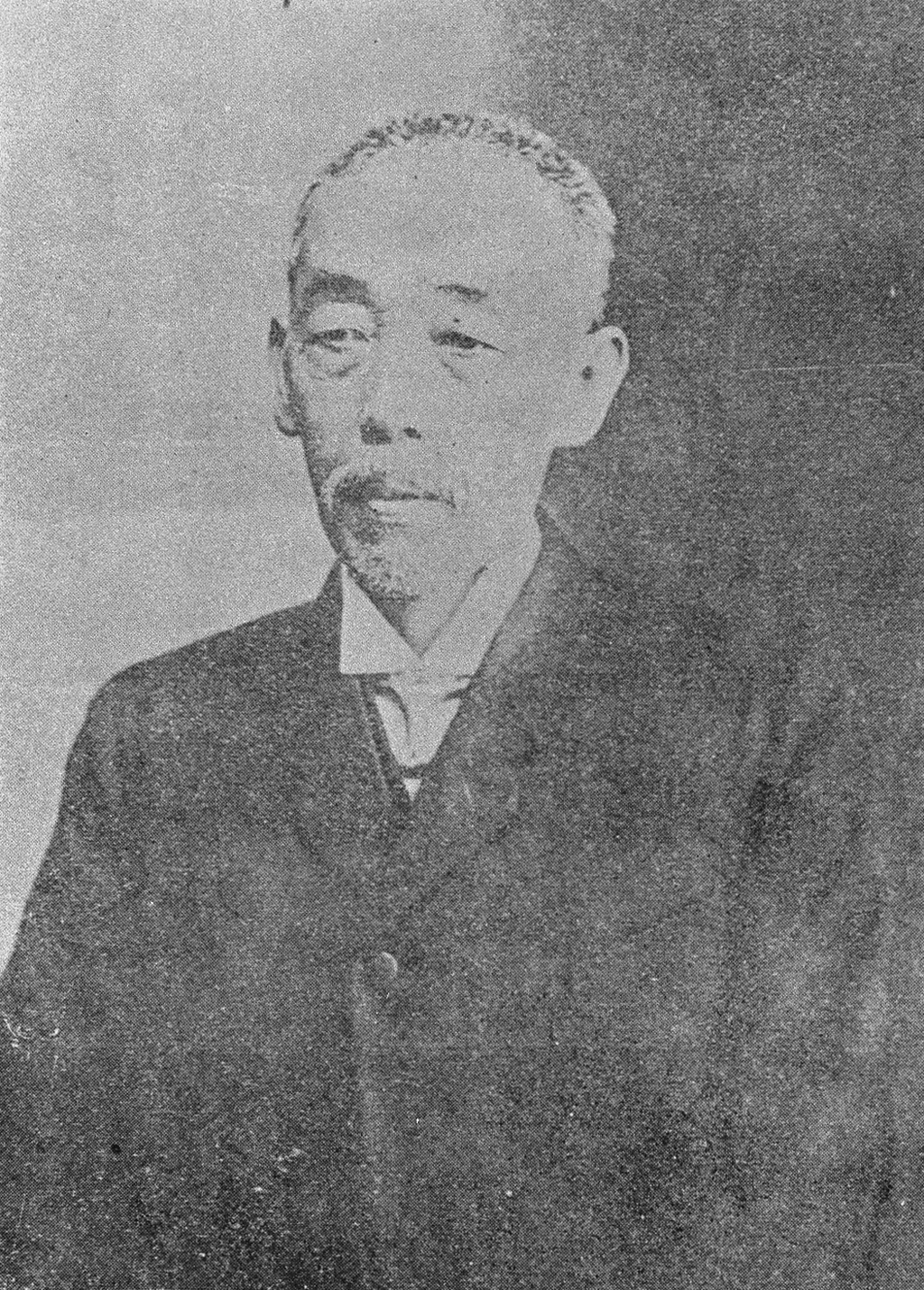 Portrait of Shibata Shokei (柴田承桂, 1849 – 1910)